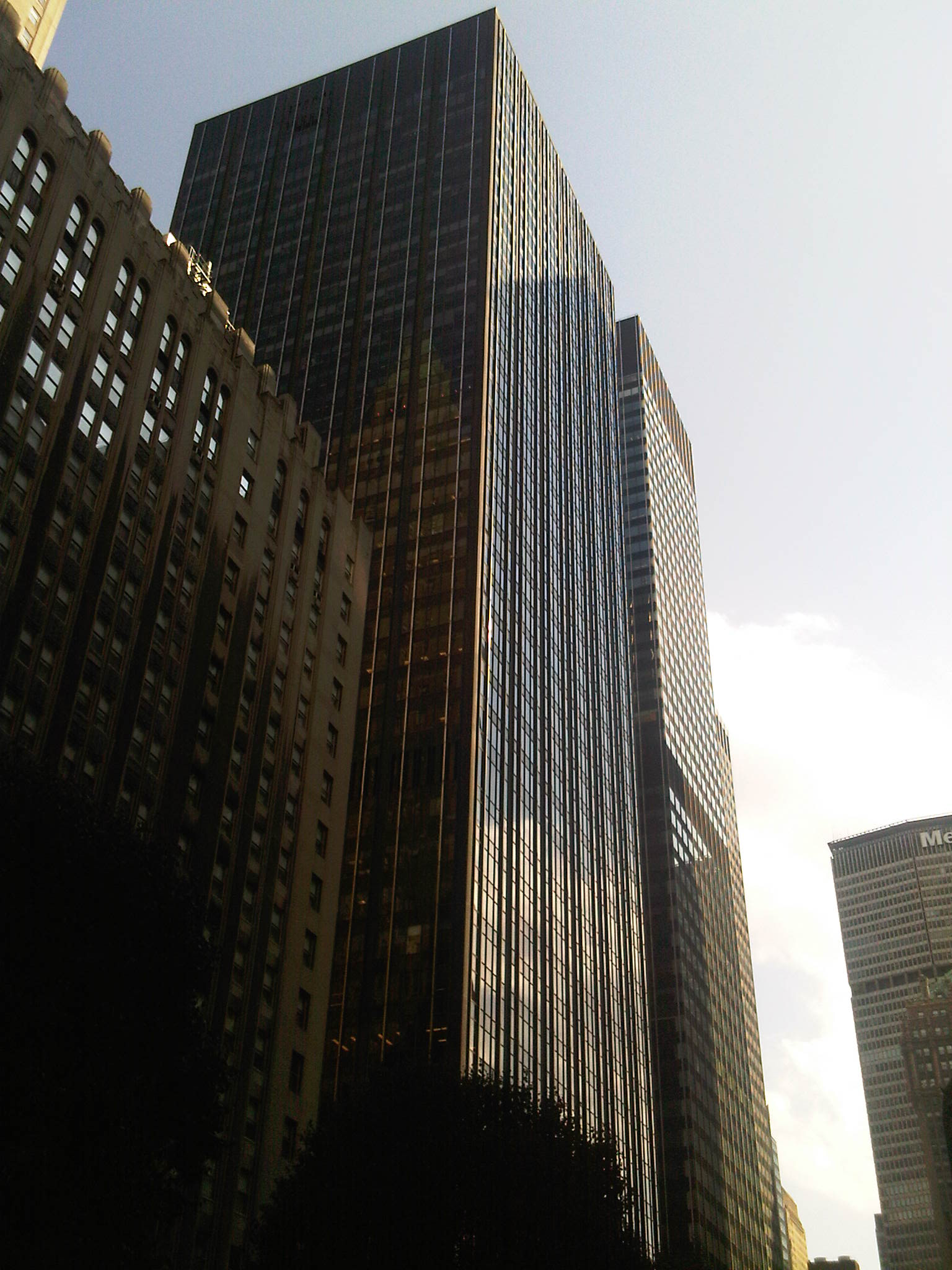 UBS Investment Bank's Offices at 299 Park Avenue in New York City, built in 1967